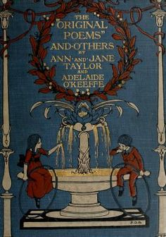 The 'Original Poems' and Others, by Ann and Jane Taylor and Adelaide O'Keeffe, Ed. by E. V. Lucas, with Illustrations by F. D. Bedford 1905. Hardback. Blue cloth with gilt/white decorations. 210 pages. Edited by E.V. Lucas